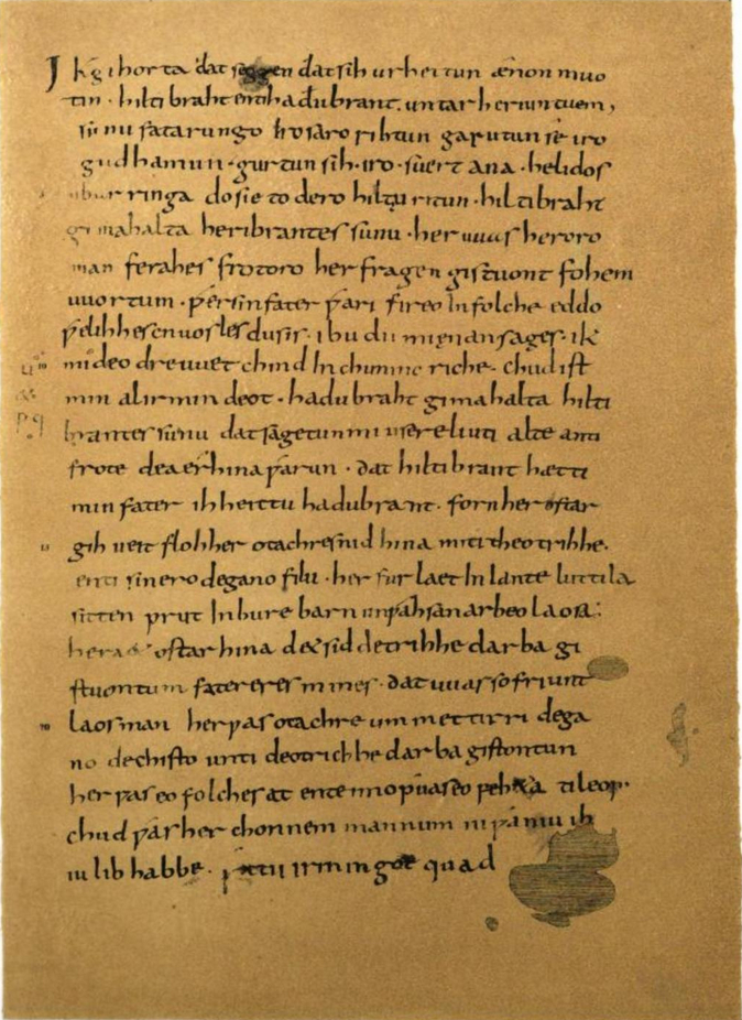 The first page of the Hildebrandslied. Facsimile published by Wilhelm Grimm in 1830 (from the Landes- und Murhardsche Bibliothek, Kassel, Germany, 2° Ms. theol.54, Bl. 1r). This is the first published facsimile of the manuscript and it shows the page before the damage caused by the use of chemical reagents in the later 19th Century.